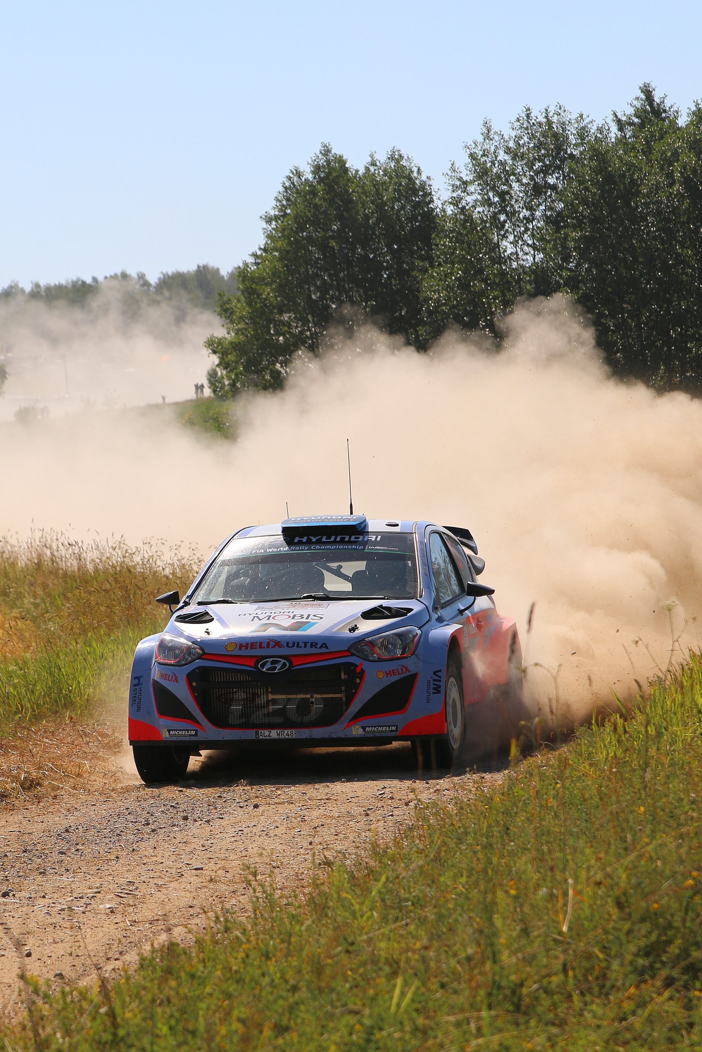 Kevin Abbring, OS 10 Mazury, 72nd LOTOS Rally Poland